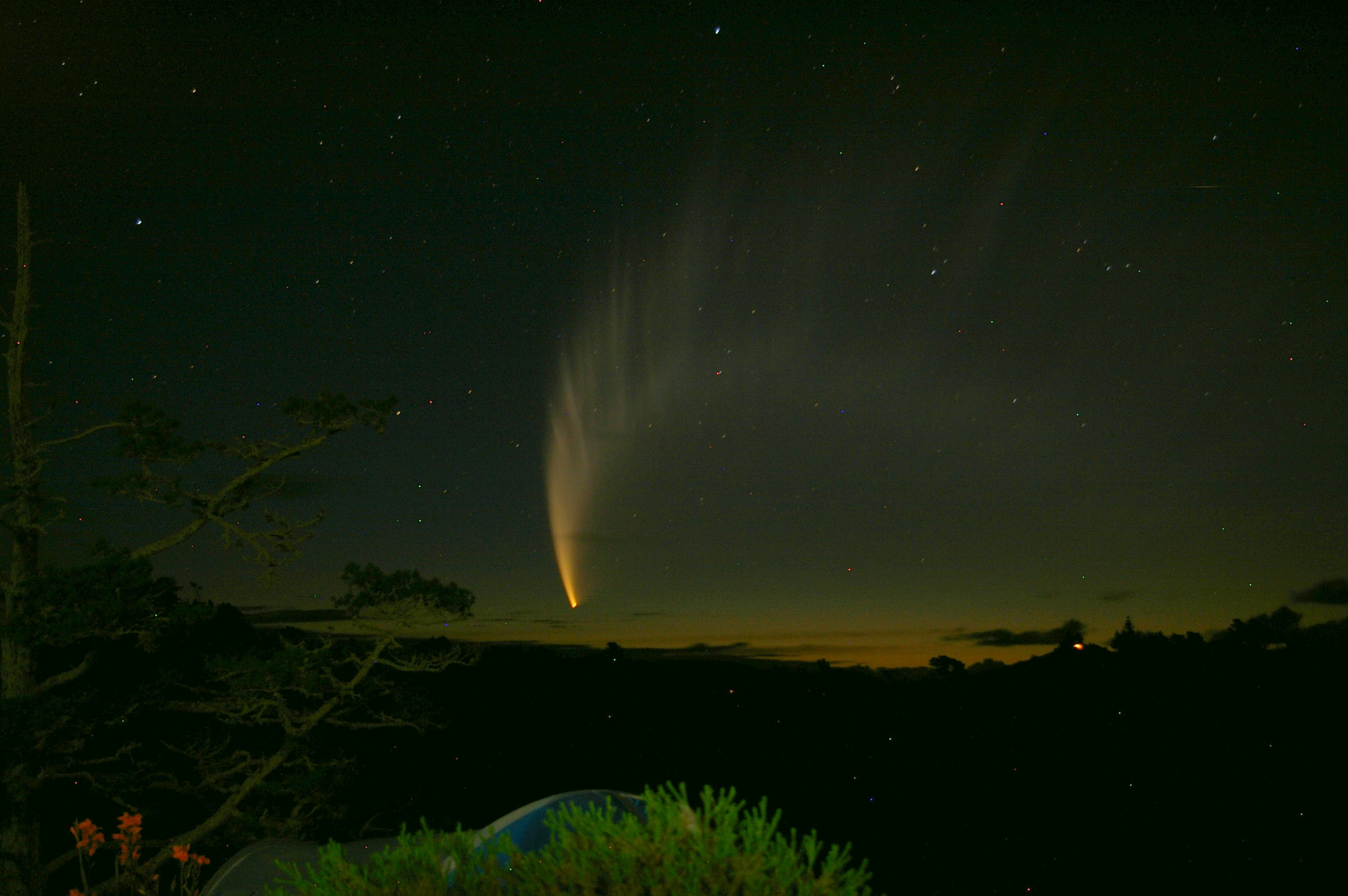 Comet McNaught as seen from Matakohe, New Zealand on 20 January 2007 at 9.03pm